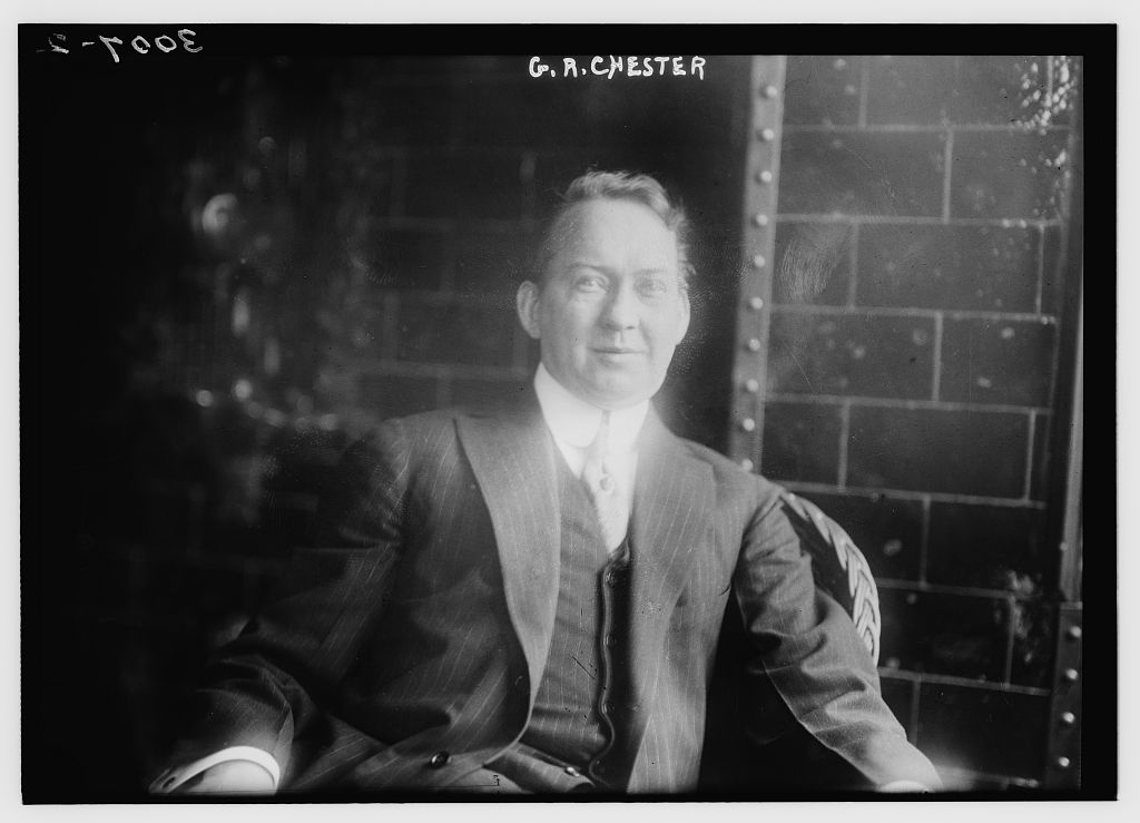 G.R. Chester (LOC) Bain News Service, publisher. G. R. Chester [between ca. 1910 and ca. 1915] 1 negative : glass ; 5 x 7 in. or smaller. Notes: Title from unverified data provided by the Bain News Service on the negatives or caption cards. Forms part of: George Grantham Bain Collection (Library of Congress). Format: Glass negatives. Repository: Library of Congress, Prints and Photographs Division, Washington, D.C. 20540 USA, General information about the Bain Collection is available at Persistent URL: Call Number: LC-B2- 3007-2